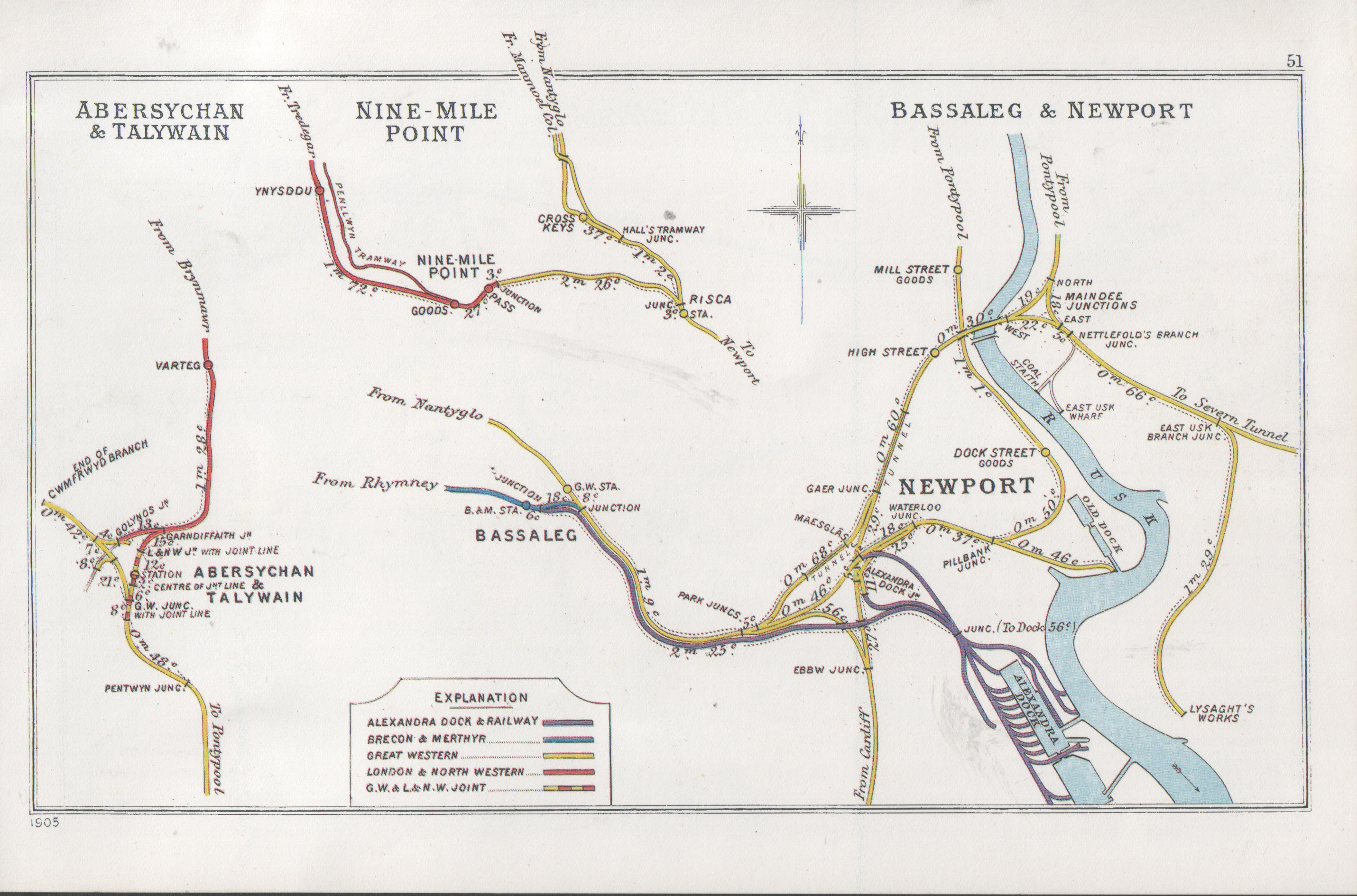 Pre Grouping railway junction around Abersychan & Talywain; Nine-Mile Point; Bassaleg & Newport